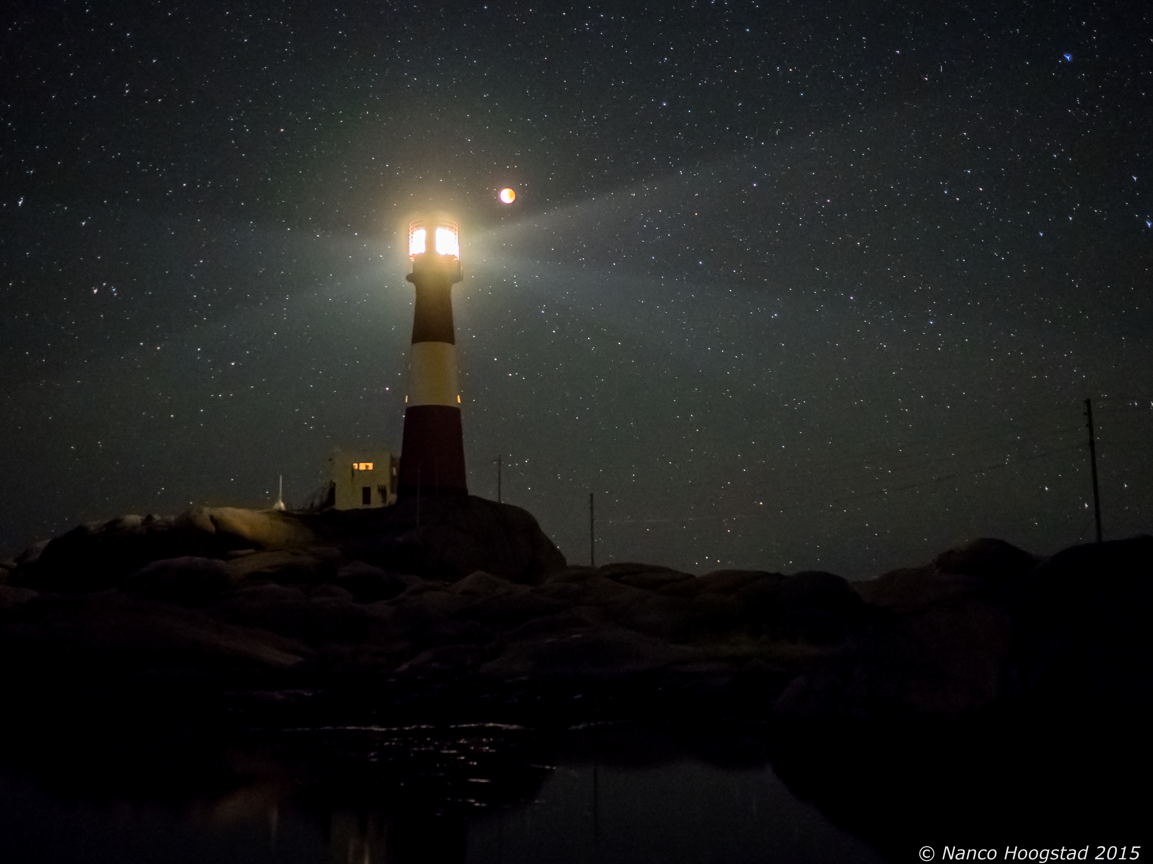 OLYMPUS DIGITAL CAMERANorsk bokmål: Eigerøy fyr, Eigersund kommune, Rogaland, Norge